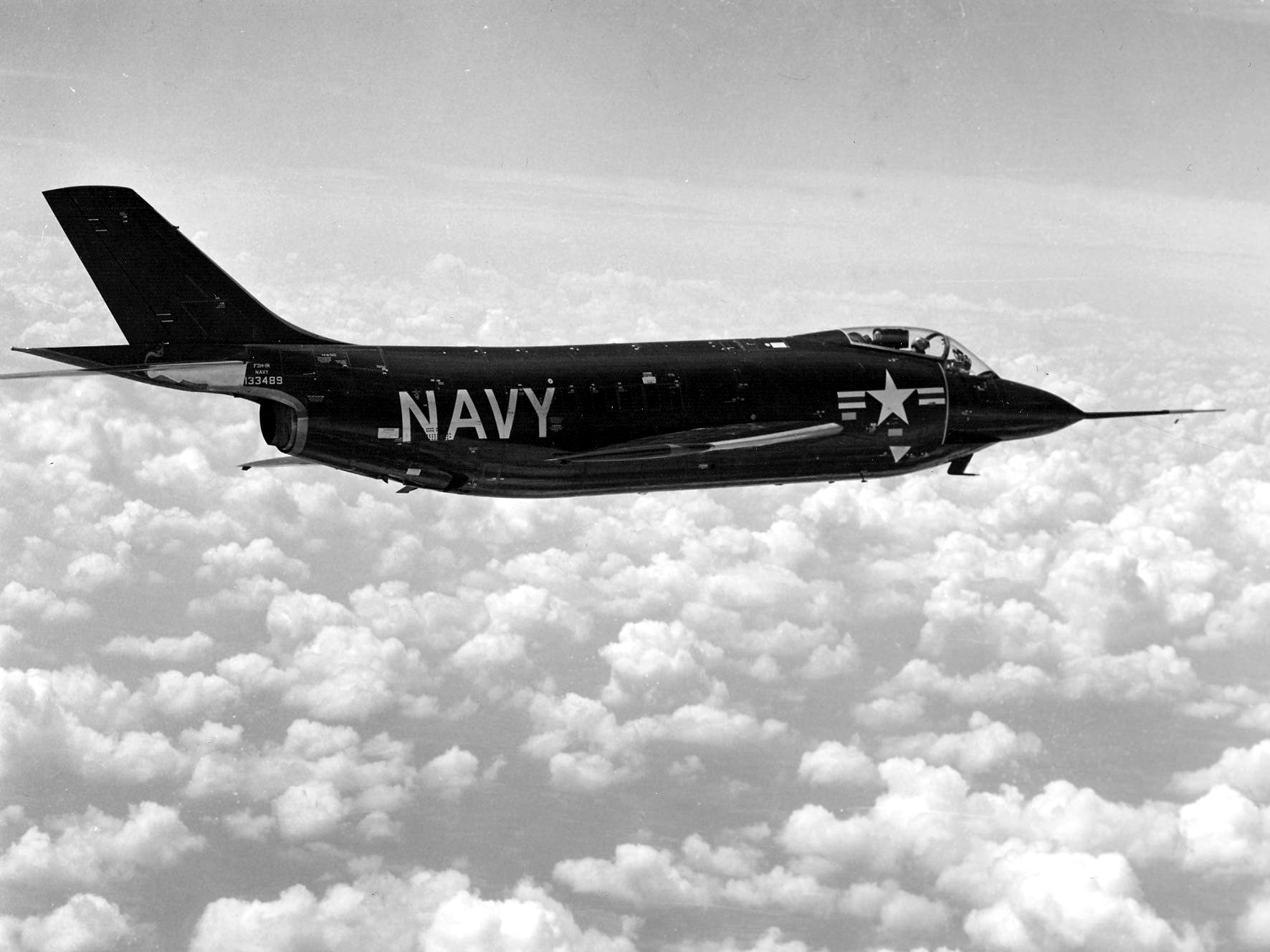 The first production U.S. Navy McDonnell F3H-1N Demon (BuNo 133489), in 1955. The F3H-1 was ordered before it s first flight to counter the Soviet MiG-15. However, only 58 aircraft were built and most never flew, because the Westinghouse J40 engine. The aircraft was seriously underpowered and the J40 was prone to inflight explosions and sudden failures. All F3H-1Ns were permanently grounded in July 1955 and the surviving airframes were either used as ground trainers or scrapped. 133489 first flew on 24 December 1953 and was used for service evaluation at the Naval Air Test Center, Patuxent River, Maryland (USA), in 1954.